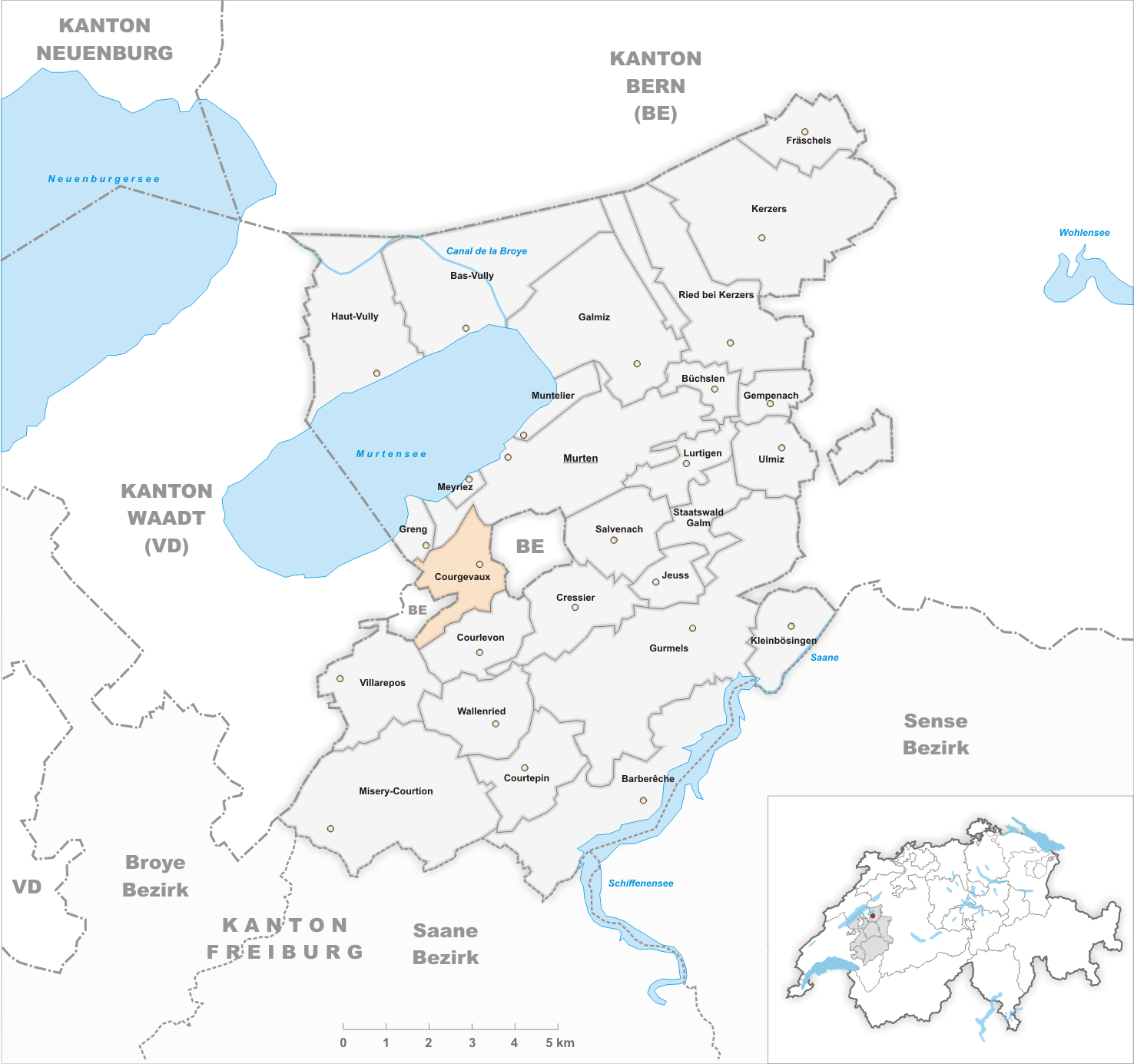 Municipality Courgevaux